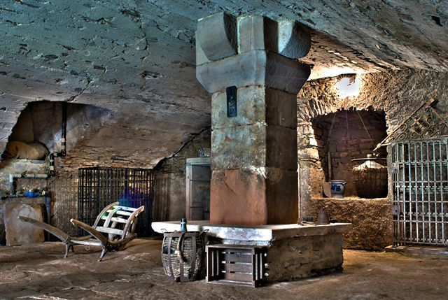 Mediaeval cellar - Lissingen Castle